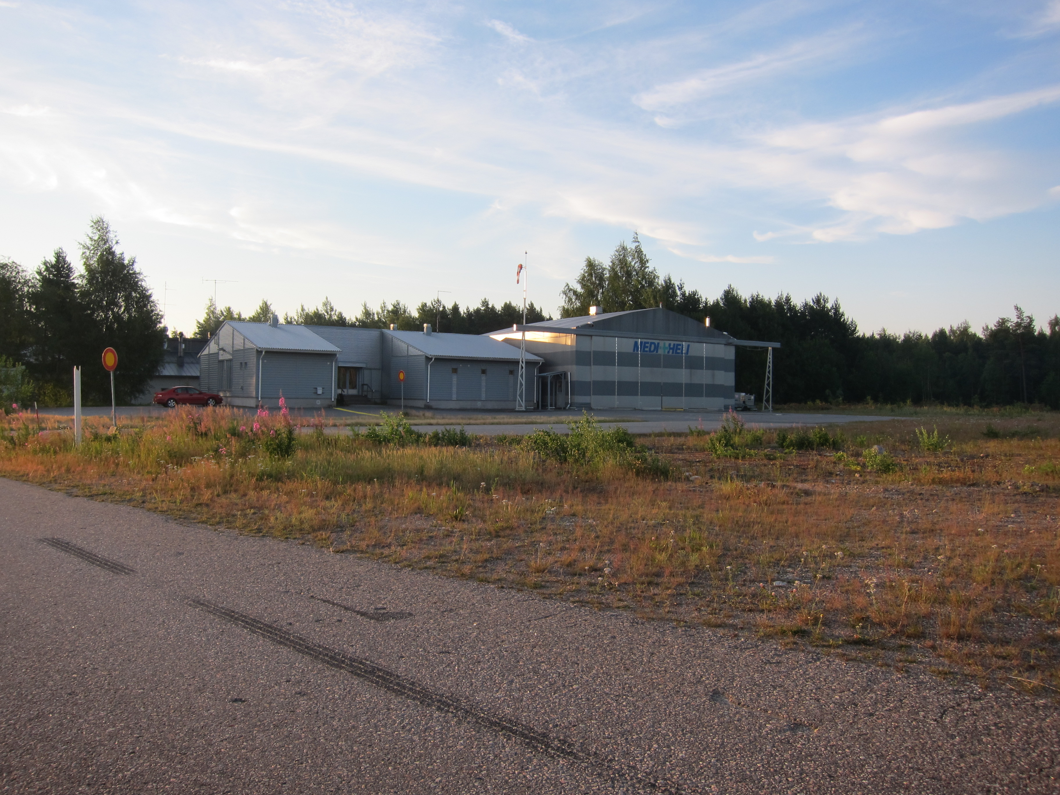 Turku Airport, Finland.